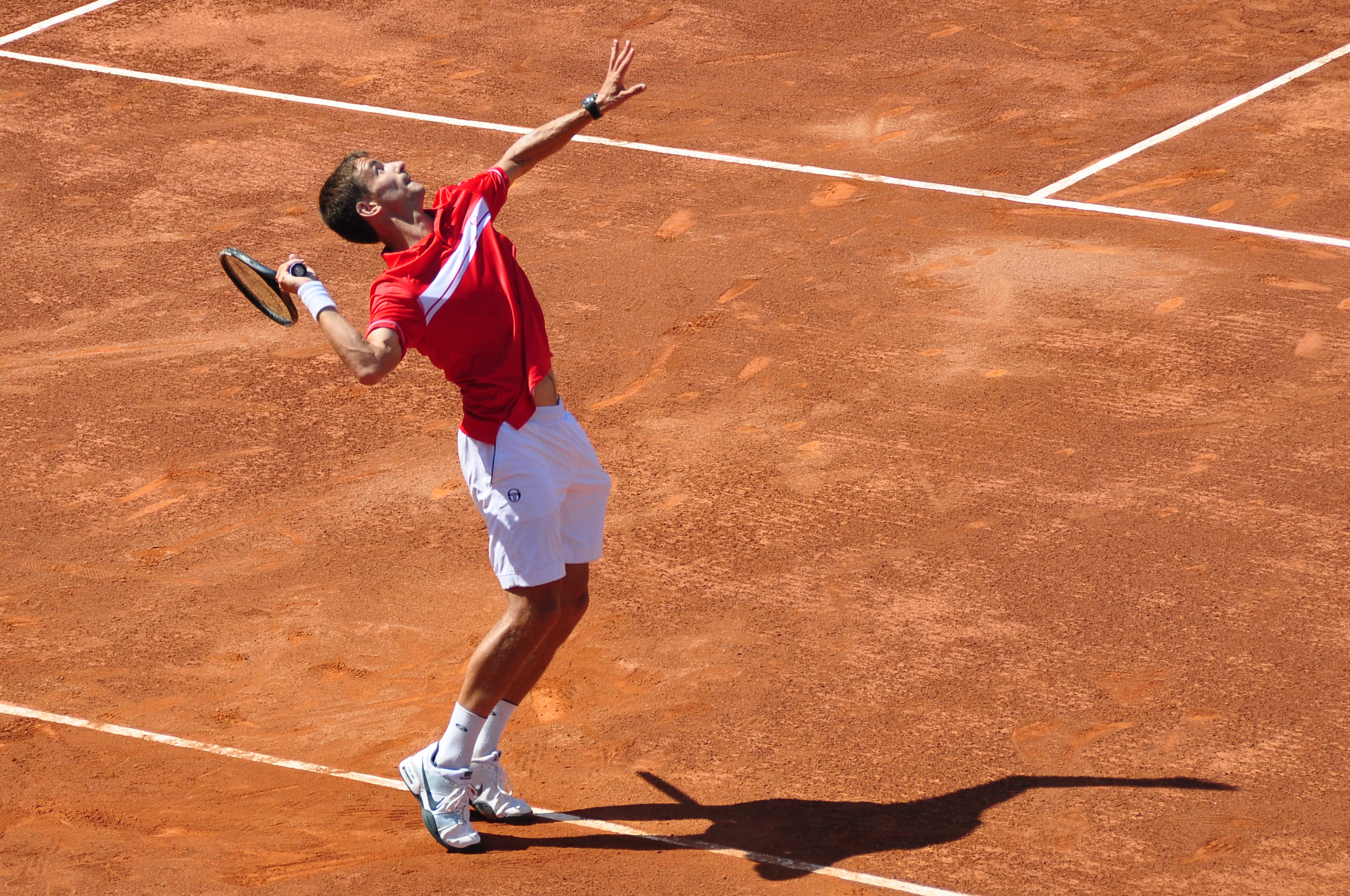 Tommy Robredo against Philipp Kohlschreiber in the 2009 Davis Cup semifinals (Spain vs. Germany)